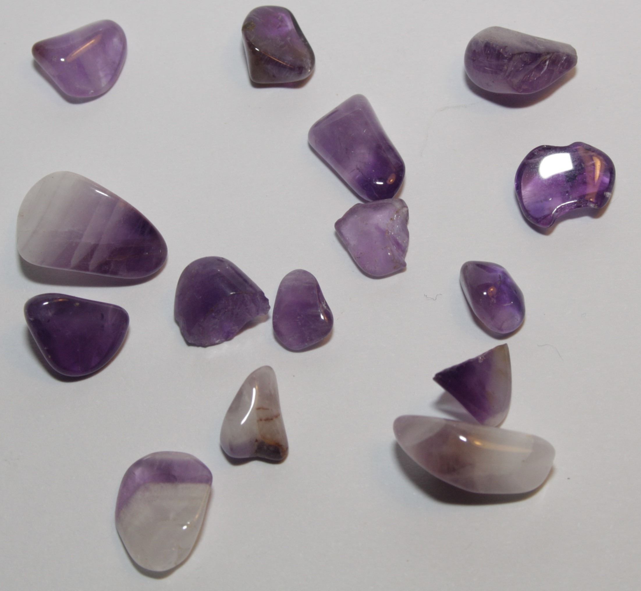 Polished Amethysts.